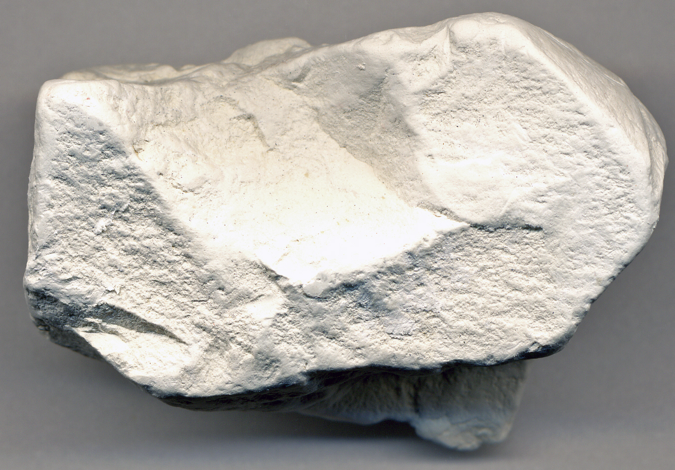 Kaolinite sample from Twiggs County, Georgia, USA. This sample is from the Cretaceous rocks of Georgia, where it occurs as lenses in paleodeltaic sands.